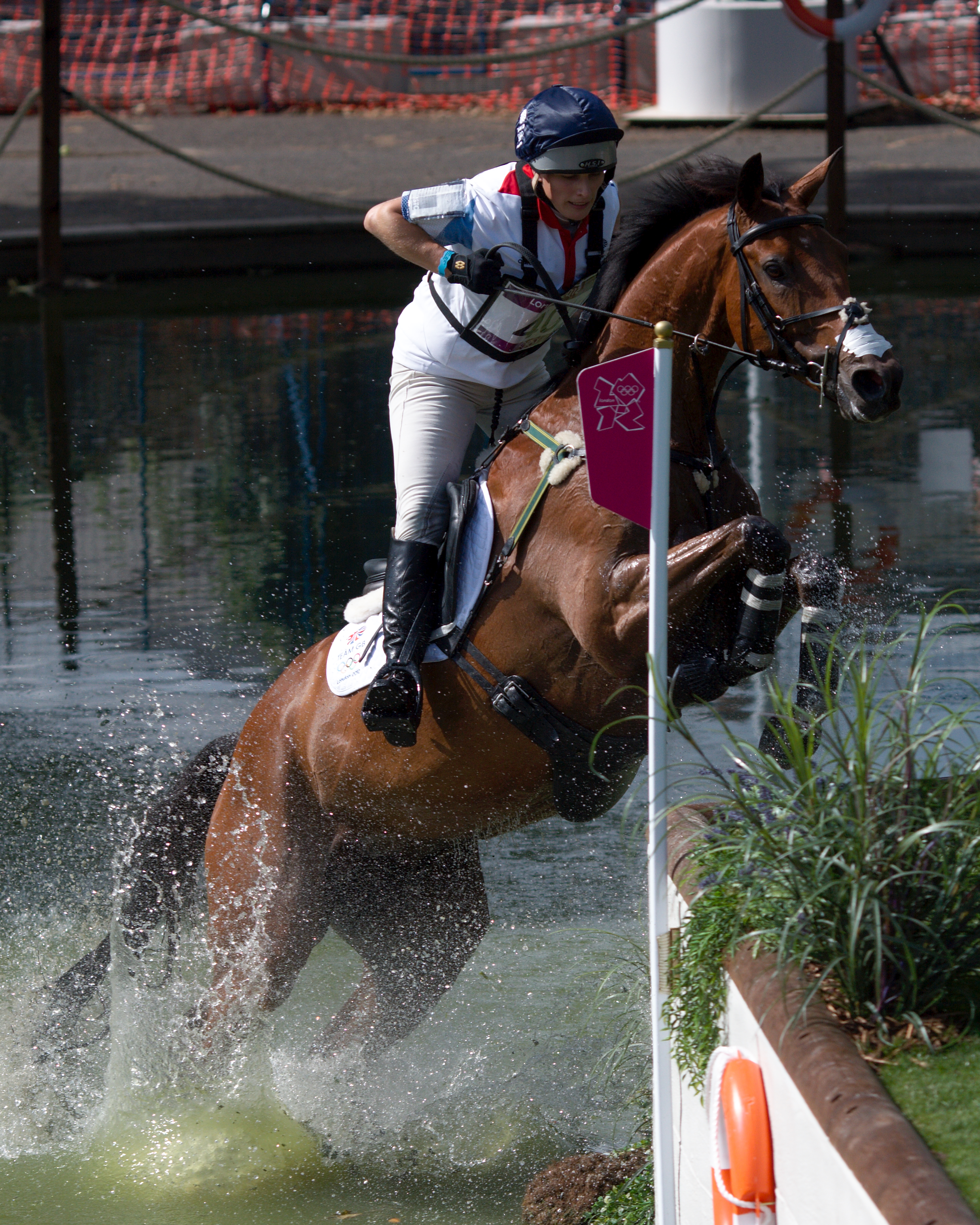 Zara Phillips and High Kingdom, competing for GBR, at fence 18, during the cross-country phase of the Eventing during the 2012 Olympic Games in Greenwich Park, London.